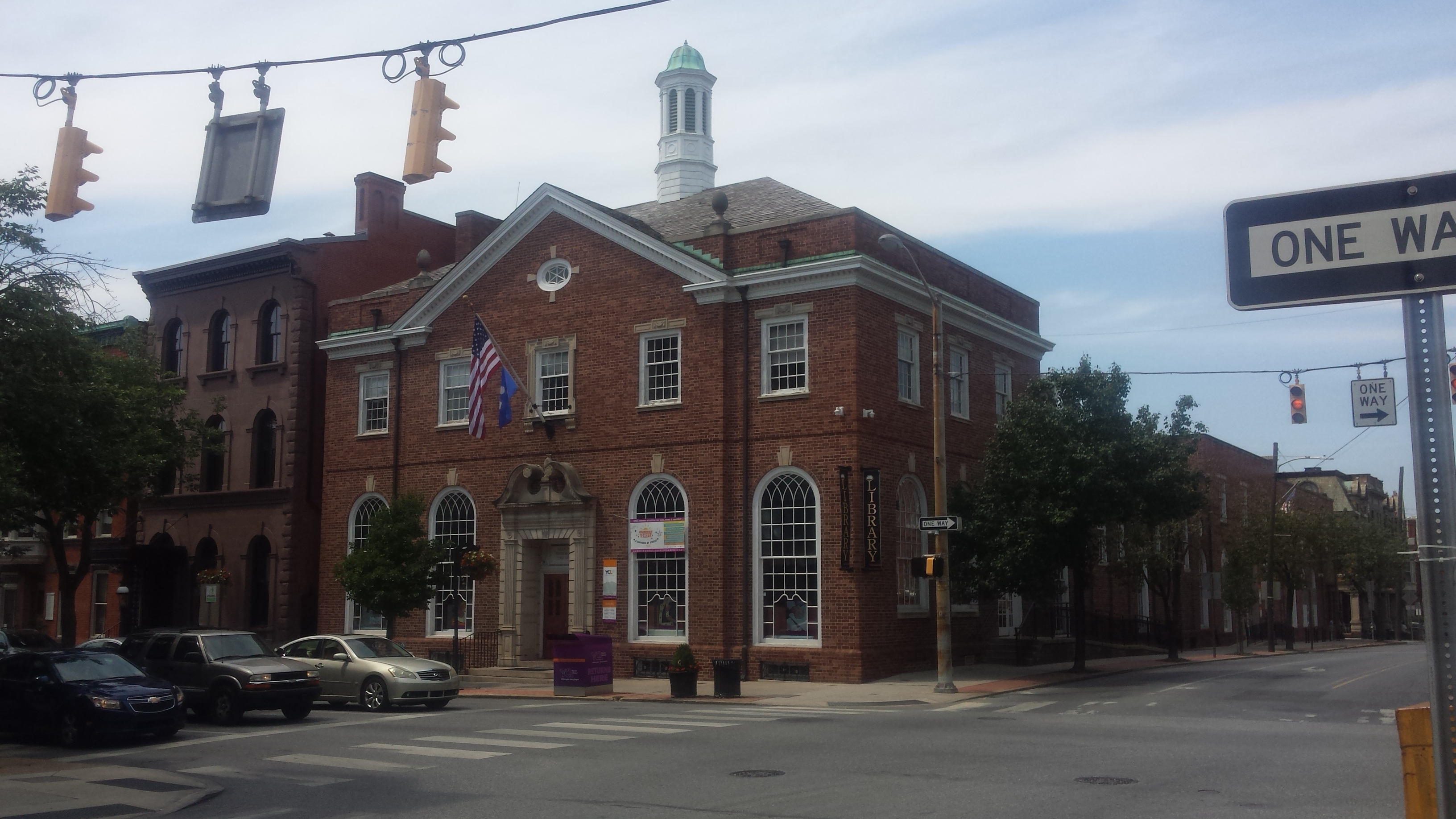 Martin Library, central branch of the York County Libraries.